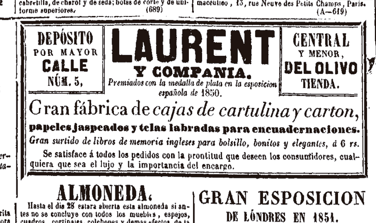 Ad in the newspaper the Herald 1851